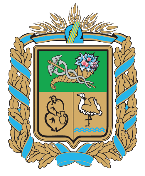 Coats of arms of Pecenizkyj raions